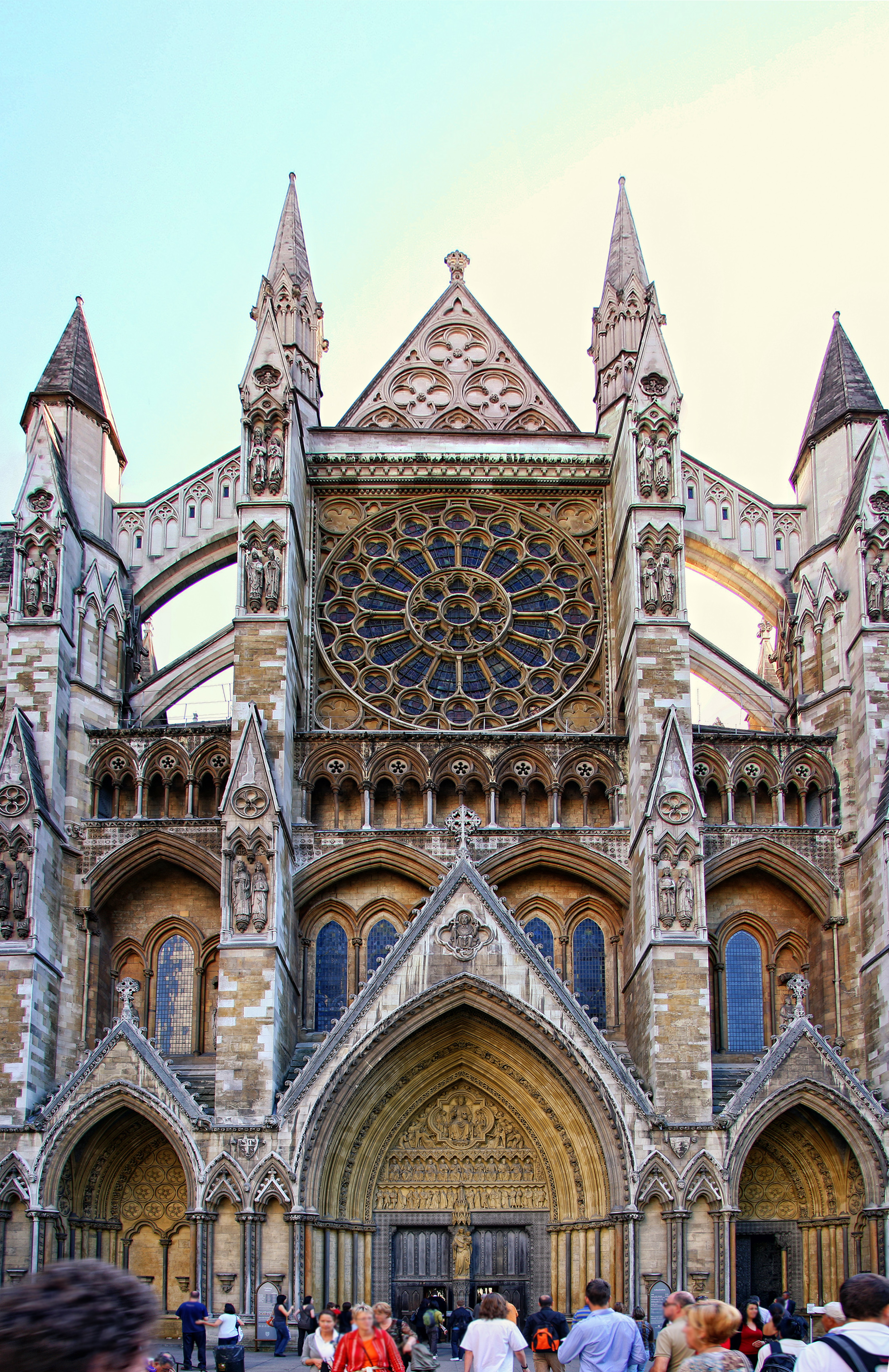 Panorama of Westminster North Entrance